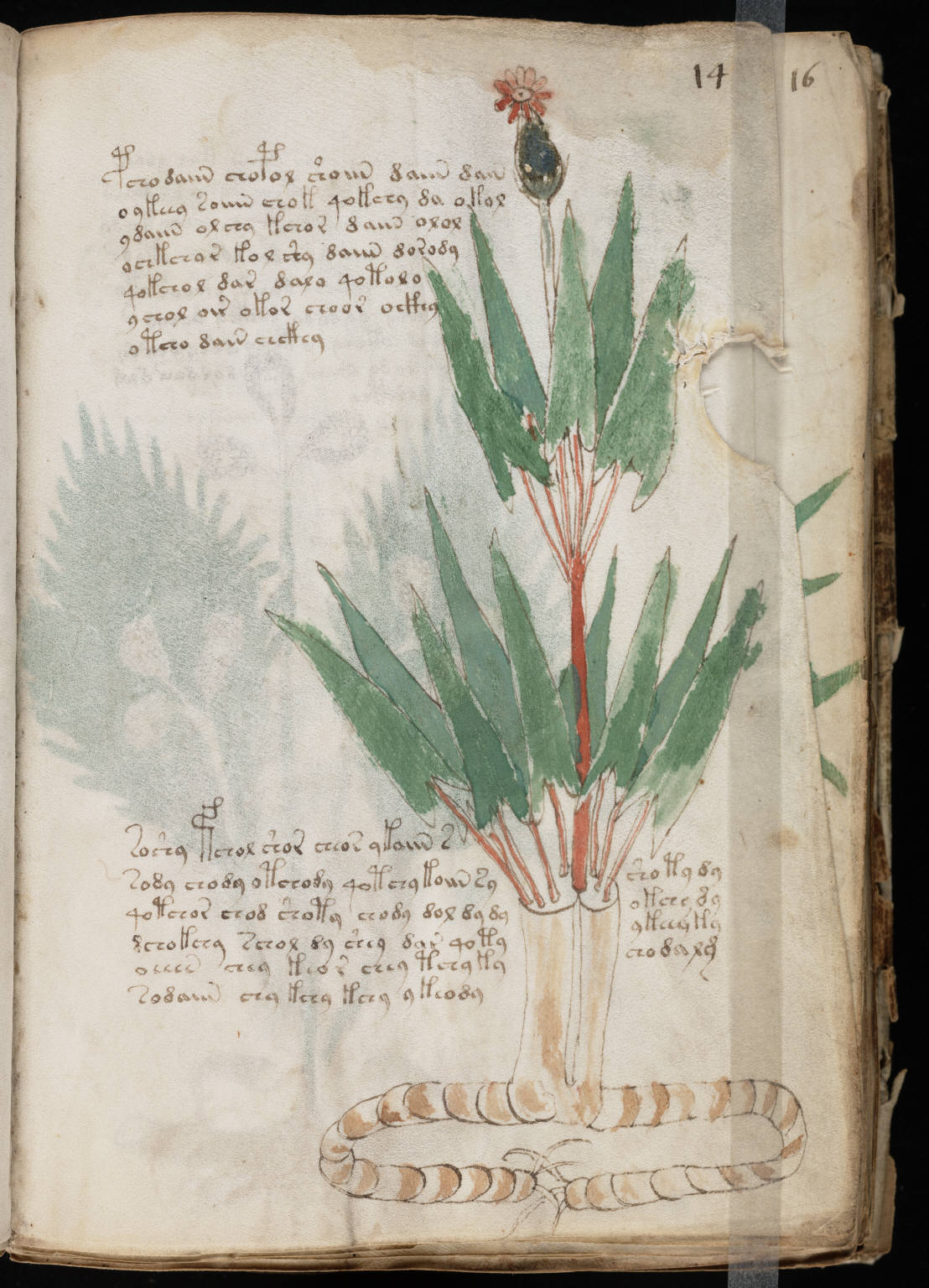 A page from the mysterious Voynich manuscript, which is undeciphered to this day.